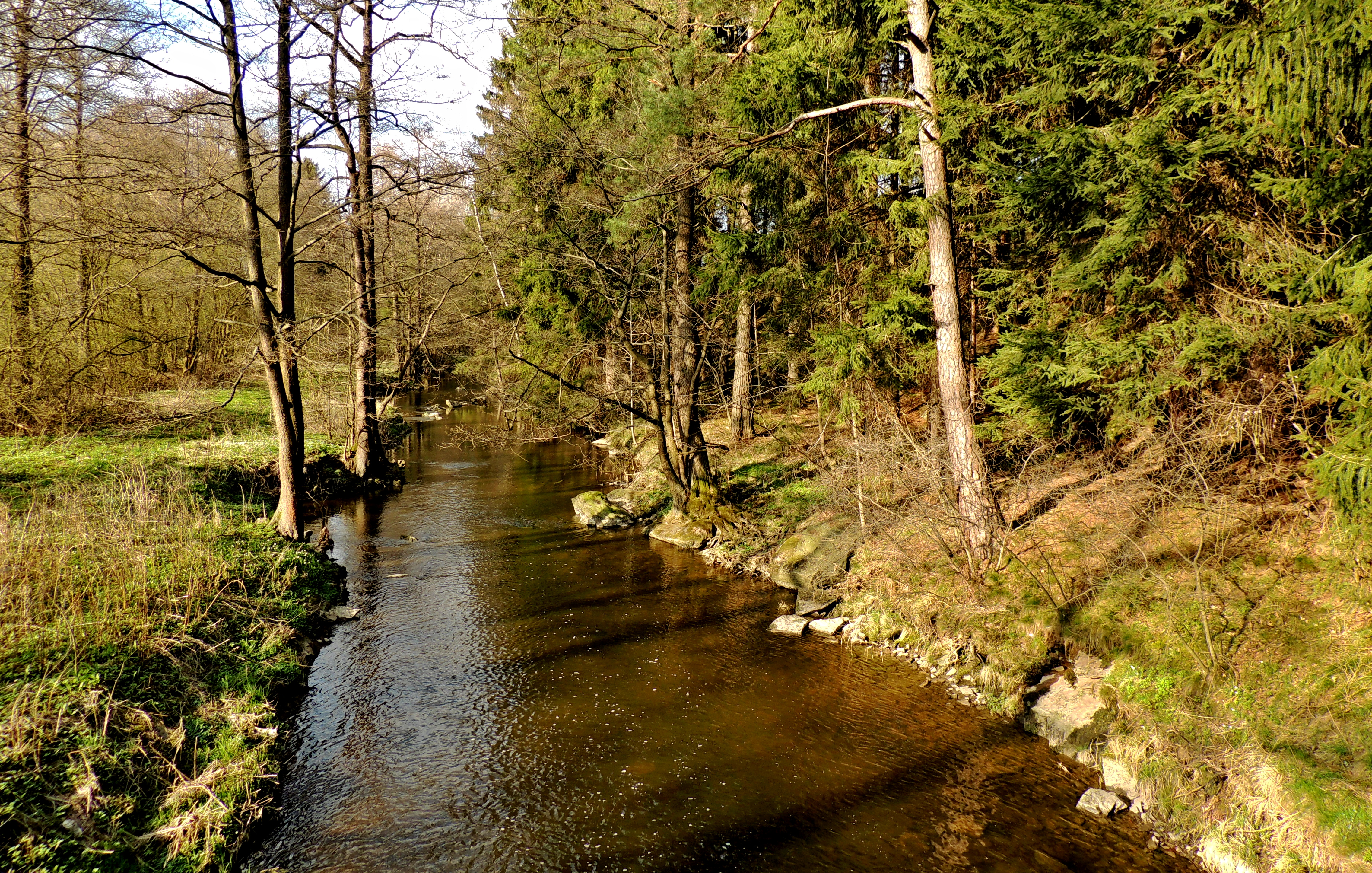 The upper reaches of Chrudimka river at an altitude of 589 m below Hamerska dam. In a short section (see photo), the river forms the border between the cadastral area of Studnice and Hamry (right bank). In the kilometer of the river 93.2 "Hamerská" Dam (name according to village Hamry), her built in 1907-1912 with of earth dike like at the pond. Chrudimka flows into the reservoir in the form of a large brook, from the dam flows like a small river. In the locality since 1913 the river flow measurement is realized, the measuring station with name "Hamry" is operating of Czech Hydrometeorological Institute. Photo location: Czechia, Pardubice Region, cadastral territory of municipalities Hamry and Studnice, "Kameničská" Highlands, the river Chrudimka.